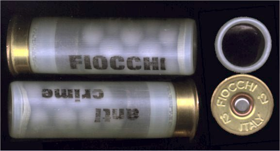 Two rounds of Fiocchi "anti crime" rubber buckshot, 12 gauge. According to Jane's, the Fiocchi riot control loading contains 15 pellets, 8.3 mm diameter and 0.58 gram each. MidwayUSA lists it with a muzzle velocity of 790 fps.